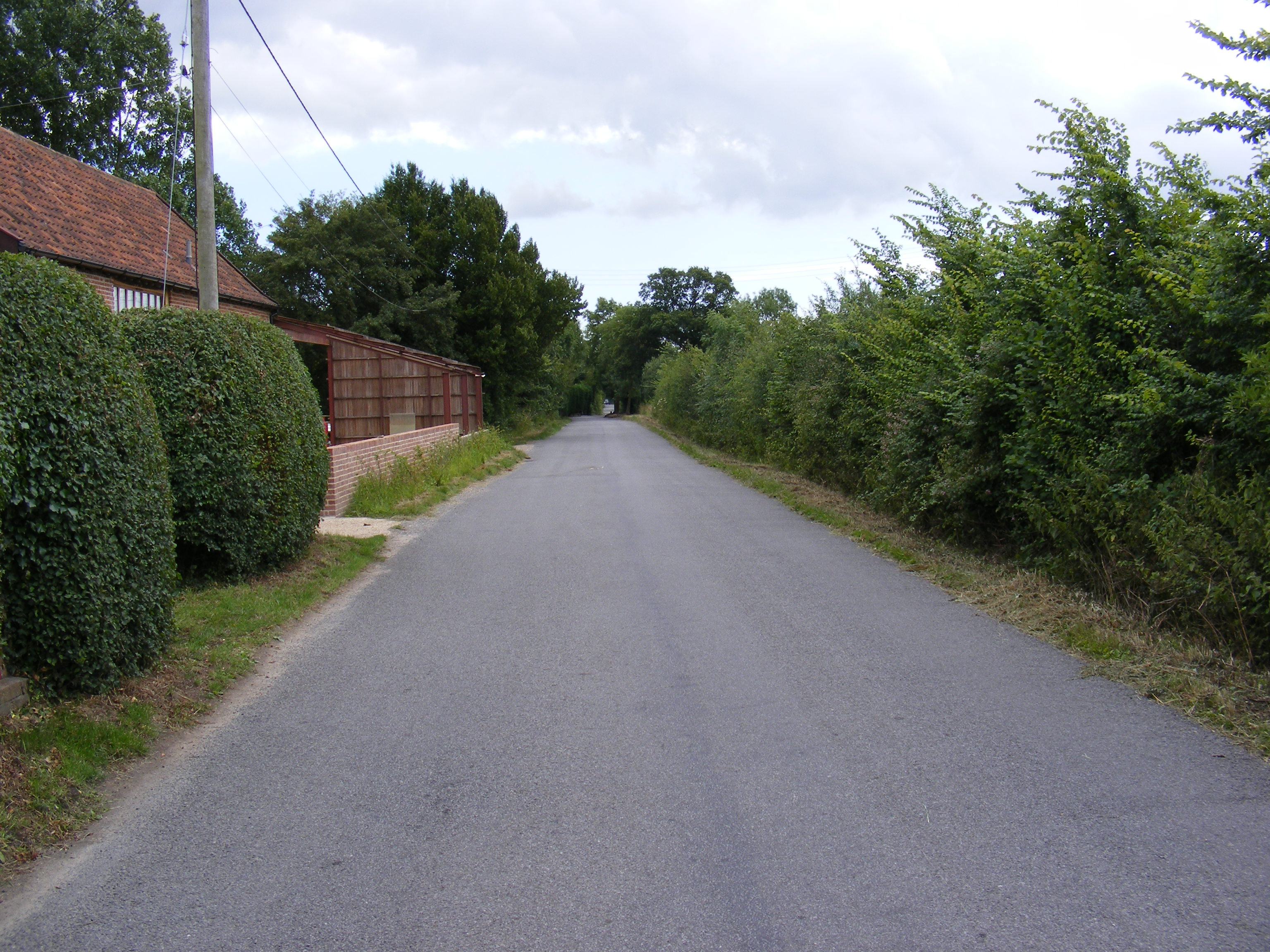 Heveningham Long Lane At the junction with Dunwich Lane Looking towards Peasenhall